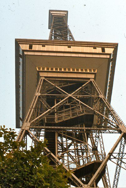 West Berlin radio and television tower, 1977. Funkturm Berlin. Other information Photo by George Garrigues